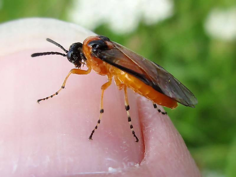 Athalia rosae (Turnip sawfly), Elst (Gld), the Netherlands